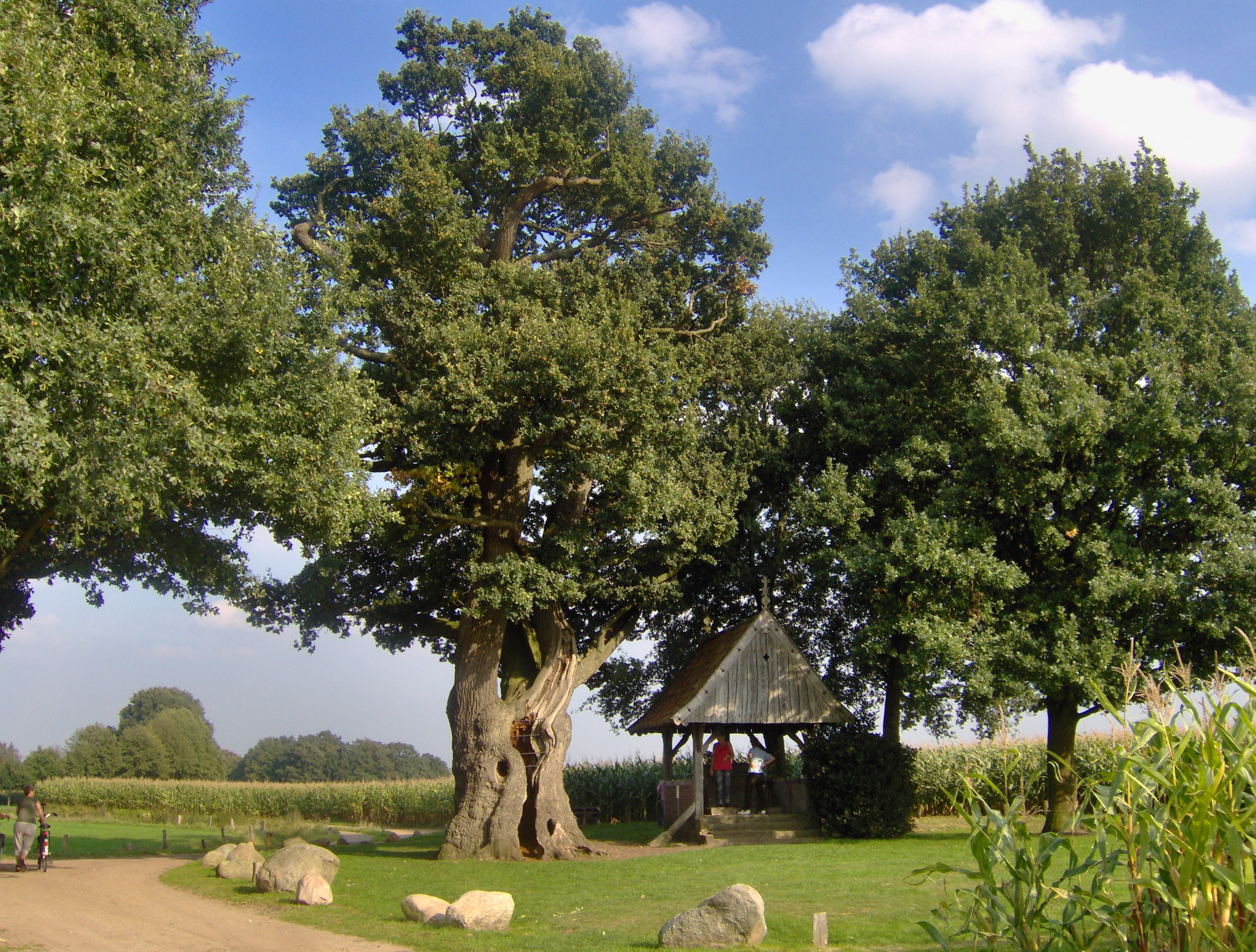 The Kroezeboom, an ancient oak at the Lansinksweg, on the Fleringer Es, north of Fleringen and south of Tubbergen in the Dutch province of Overijssel. It is one of the oldest trees in The Netherlands. During the Protestant Reformation, when worshipping catholicism was forbidden in the Netherlands, catholic masses were celebrated under the tree.